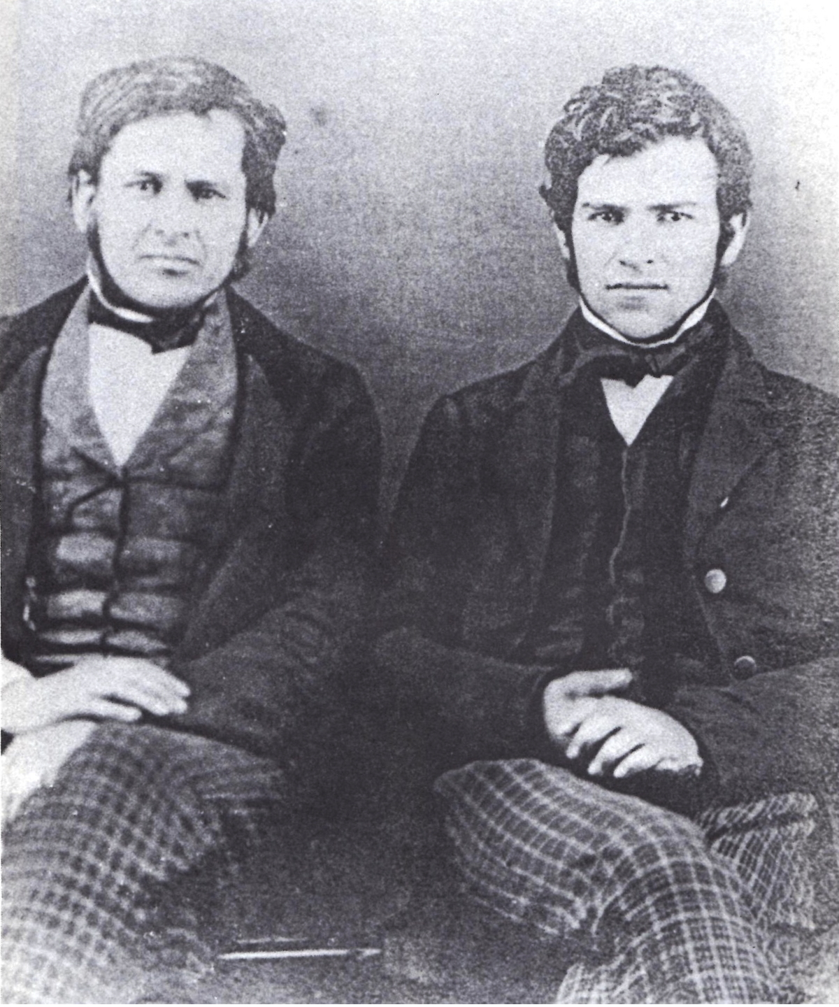 Image Caption: "Young men of ambition: Jay Gould (right) with his Roxbury neighbor, Hamilton Burhans (courtesy Lyndurst Archives)." Publication prior to 1923 is presumed.